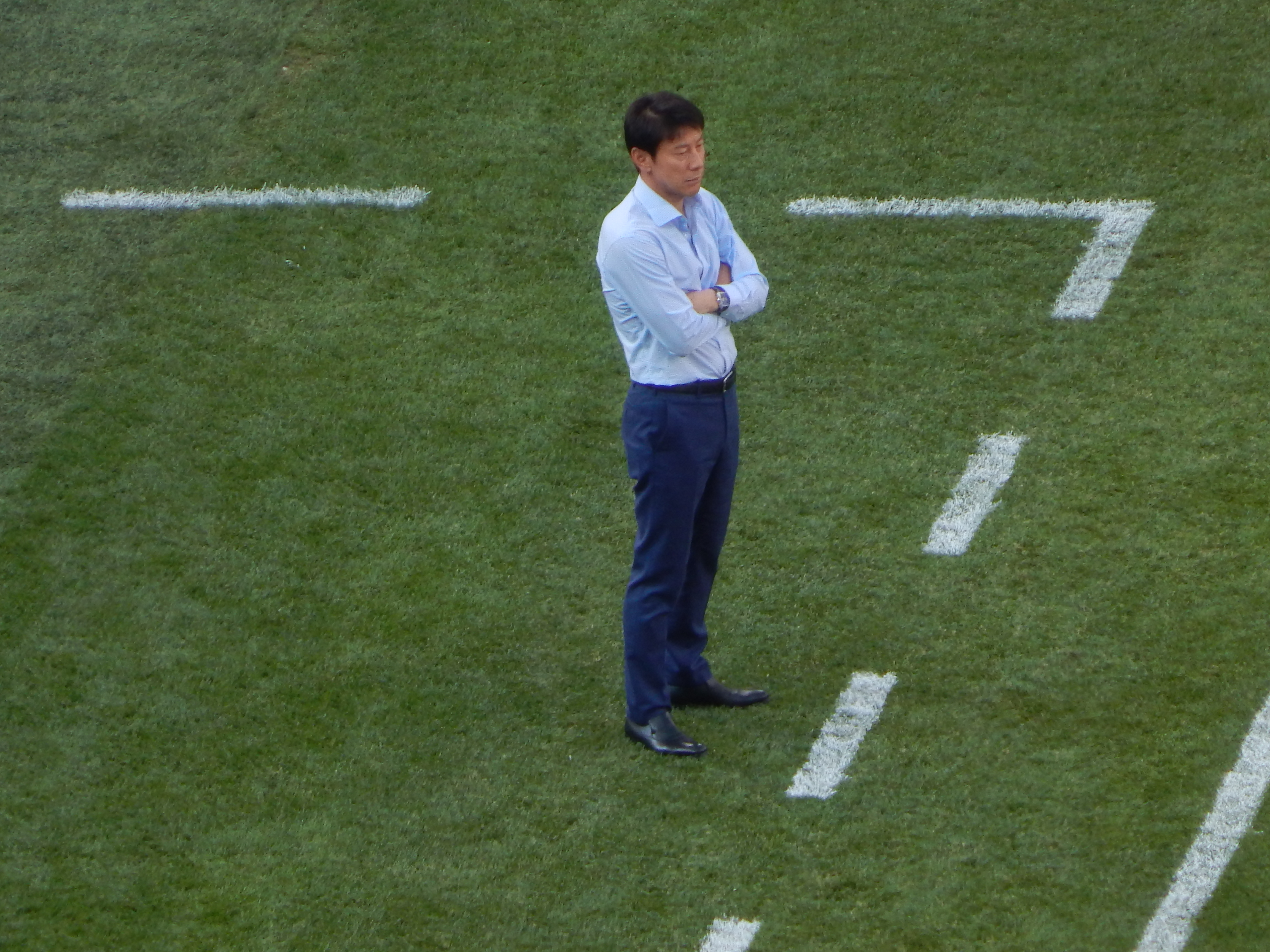 2018 FIFA World Cup - Group F - KOR v SWE. Shin Tae-yong